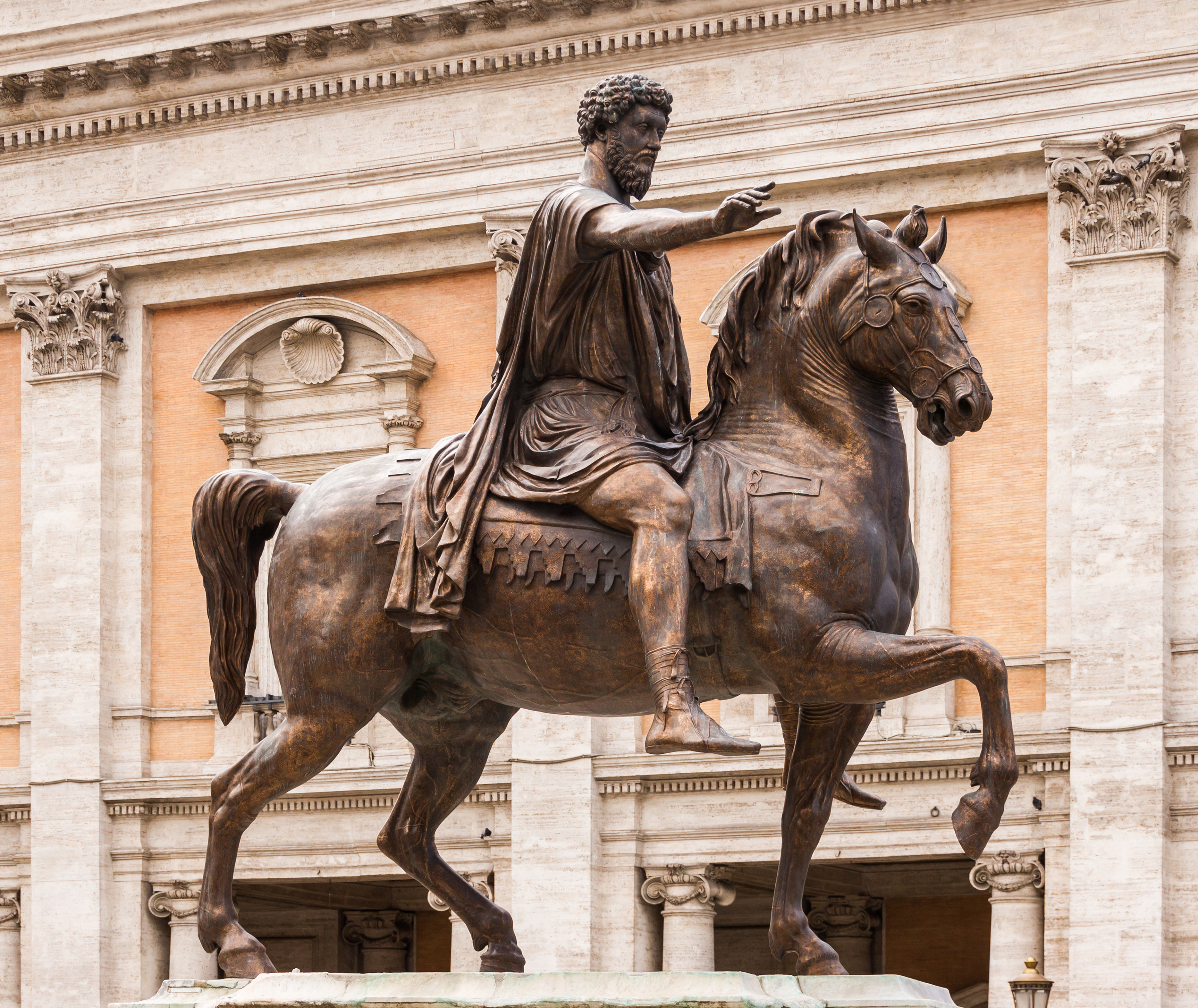 The replica of the statue of Marcus-Aurelius, Piazza del Campidoglio, Rome, Italy.